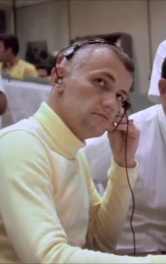 Bruce McCandless was the capcom during Apollo 11's famous EVA